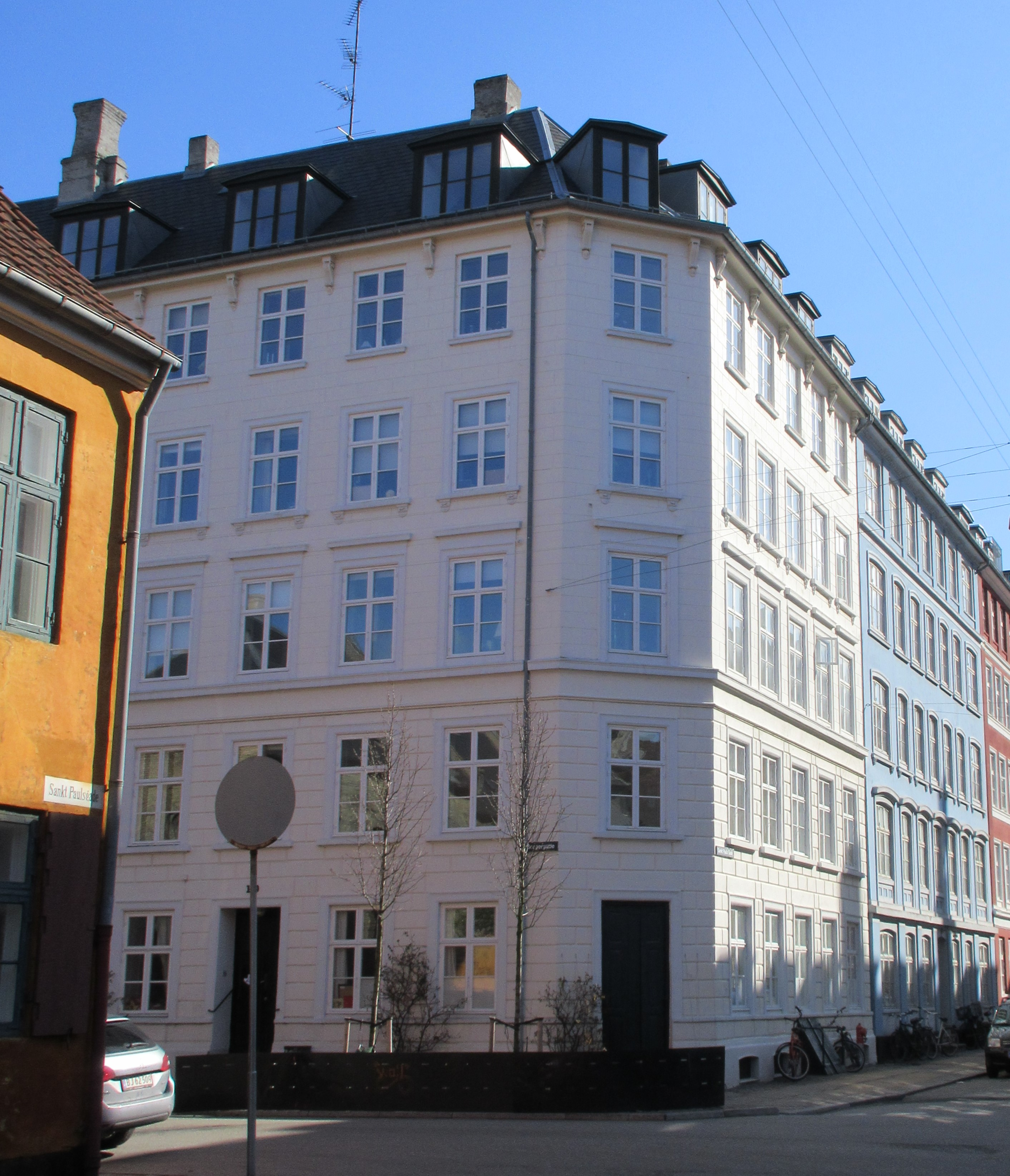 Borgergade 140 in Copenhagen, Denmark